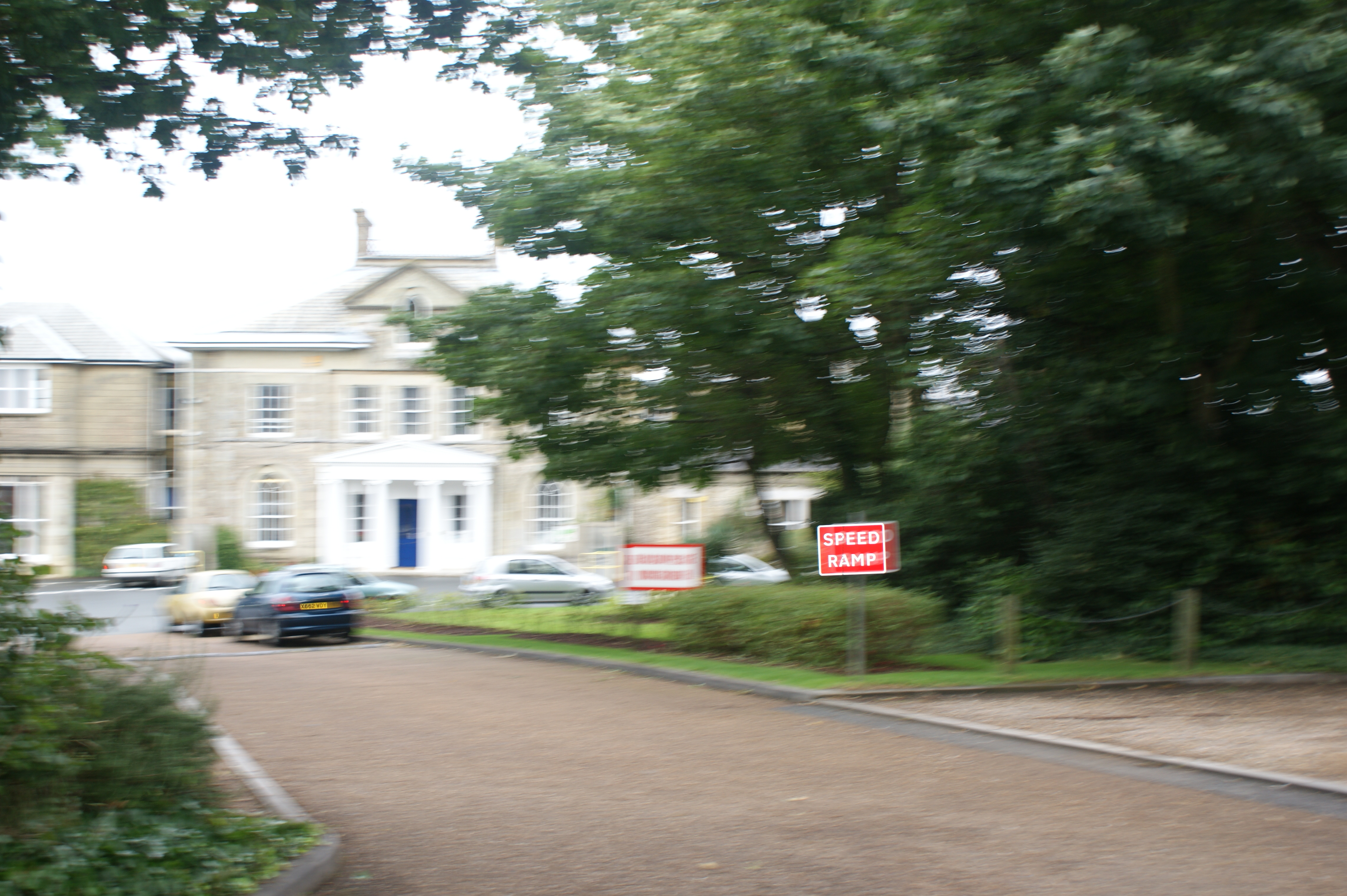 The main entrance to Ryde School